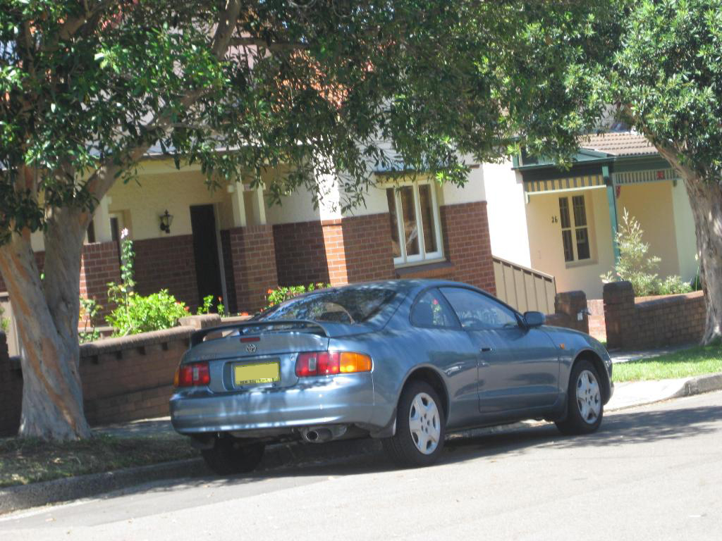 Toyota Celica 2.2 SX (ST204R-BLMSKQ) shown in Sea Spray Pearl (colour code 753).